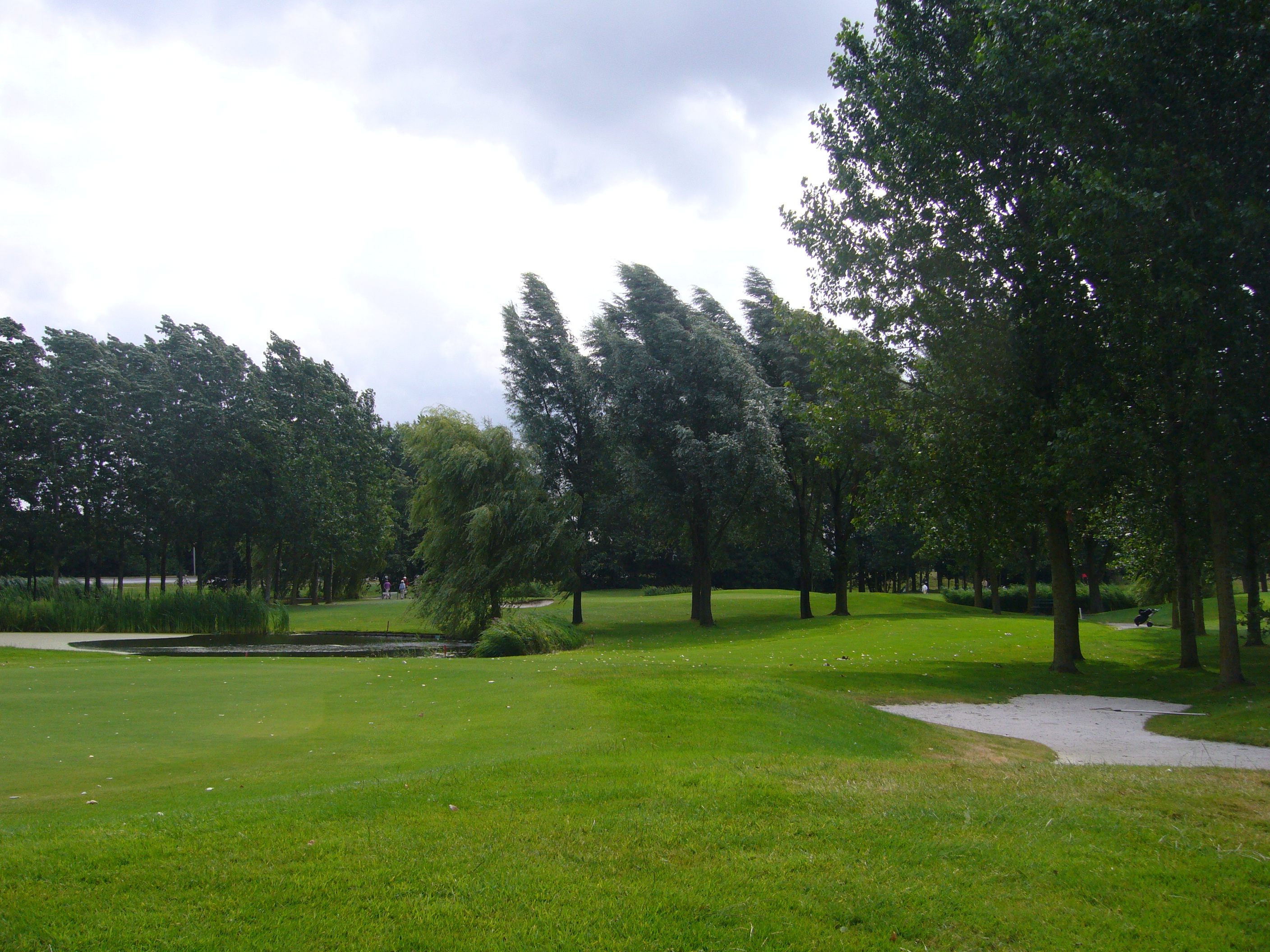 Noordwijk Golf Center, course